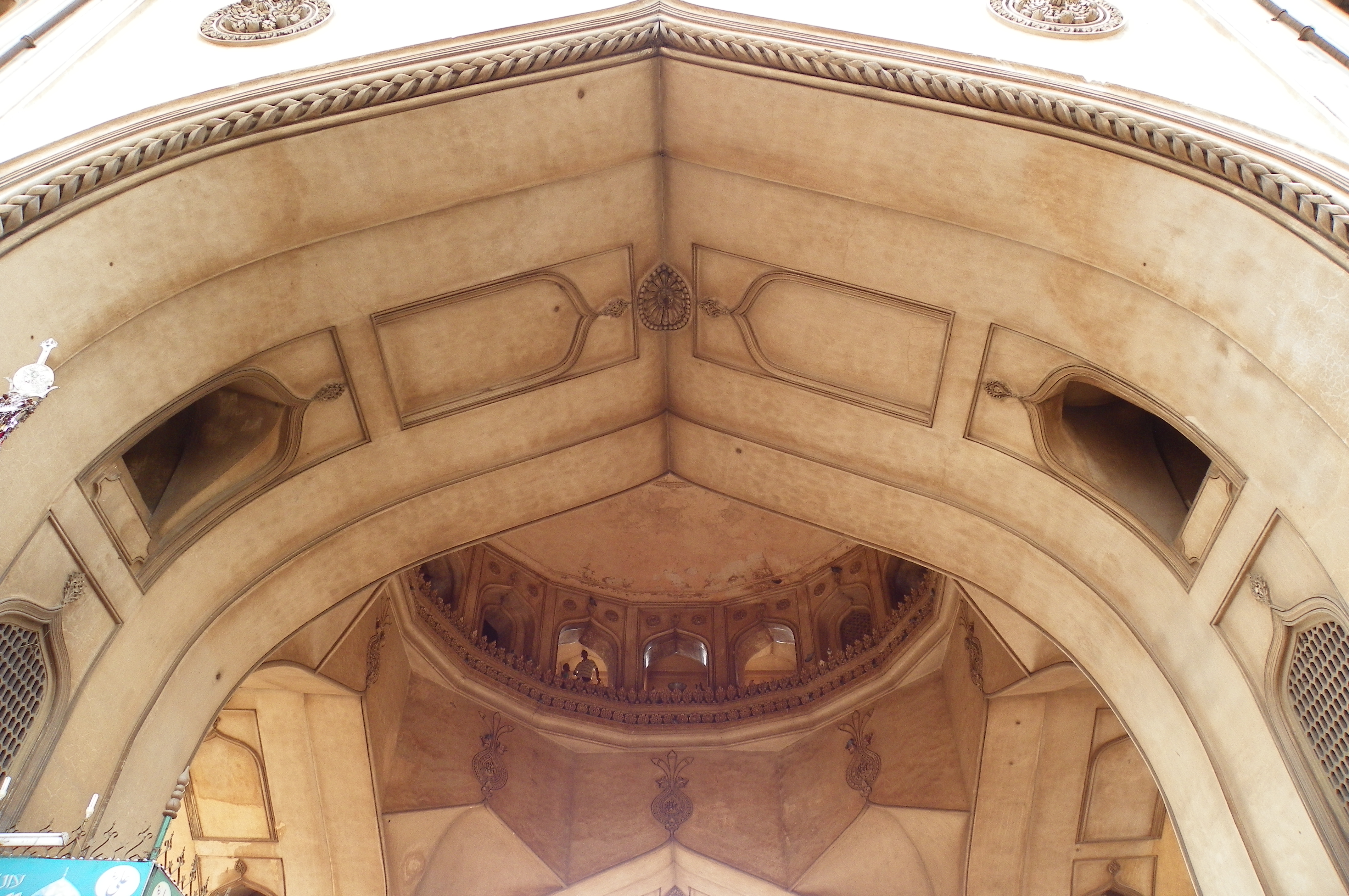 The main arch and the ceiling.